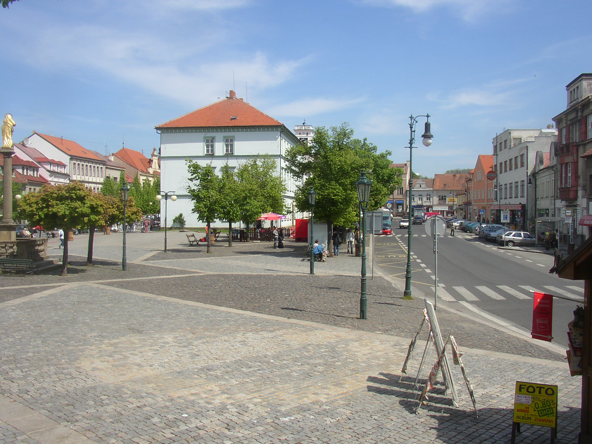 Masaryk Square in Říčany, Prague-East District, Czech Republic. A view towards east, with Marian column in the left and Roosevelt Street in the right.